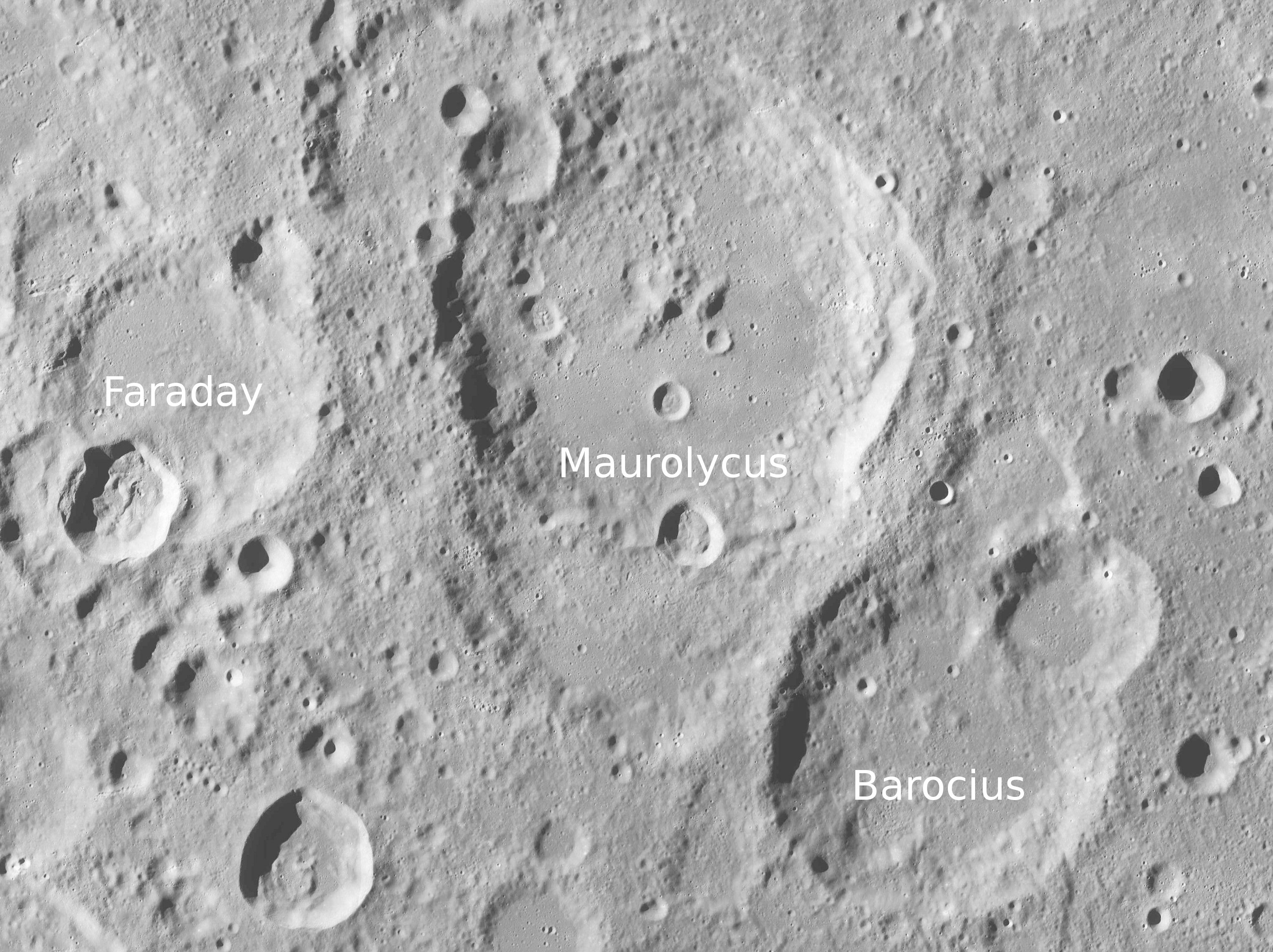 Craters Faraday, Maurolycus and Barocius (detail of LRO - WAC global moon mosaic; Mercator projection)